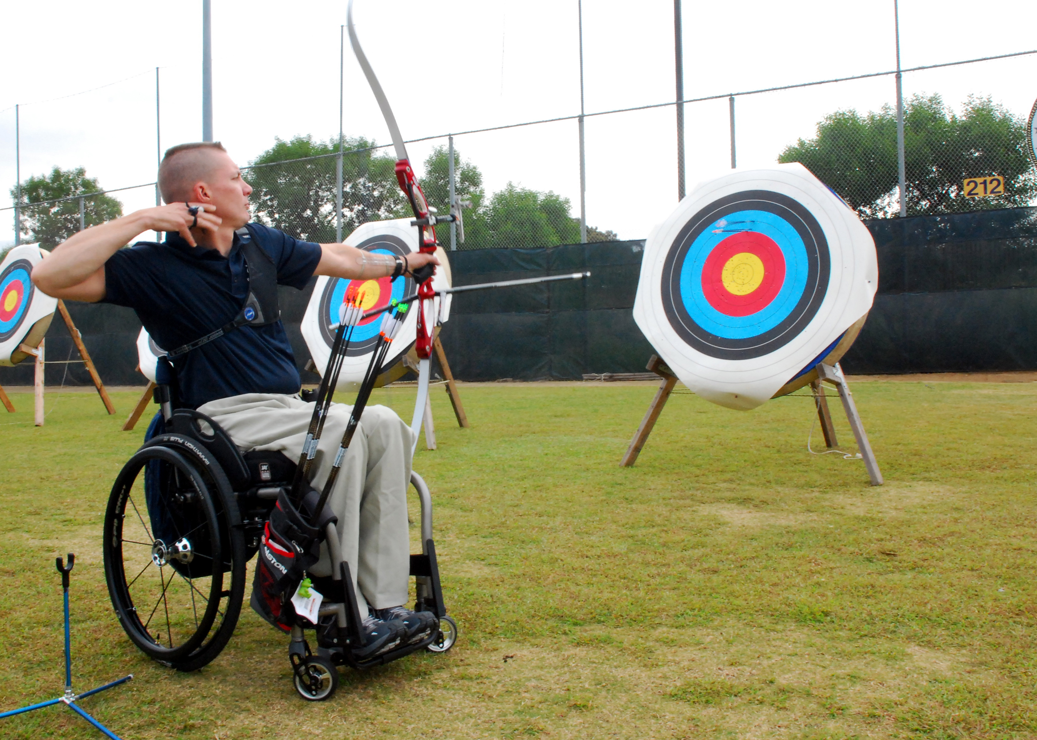 SAN DIEGO (Oct. 14, 2009) U.S. Military Summit archery instructor Russell Wolfe, member of the U.S. Paralympic Archery National Team, fires a test shot from his bow during the United States Olympic Committee Paralympic Military Sports Camp at the Naval Medical Center San Diego. The camp is designed to introduce paralympic sports to service members and veterans with disabilities. (U.S. Navy photo by Mass Communication Specialist 3rd Class Jake Berenguer/Released)